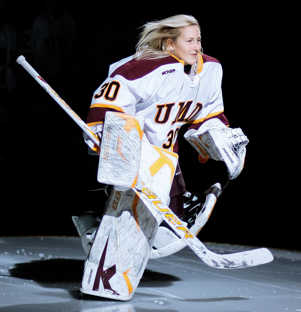 University of Minnesota-Duluth goalie Kim Martin before a Feb. 25, 2011 WCHA first round playoff game against the Minnesota State Mankato Mavericks at Amsoil Arena in Duluth, MN